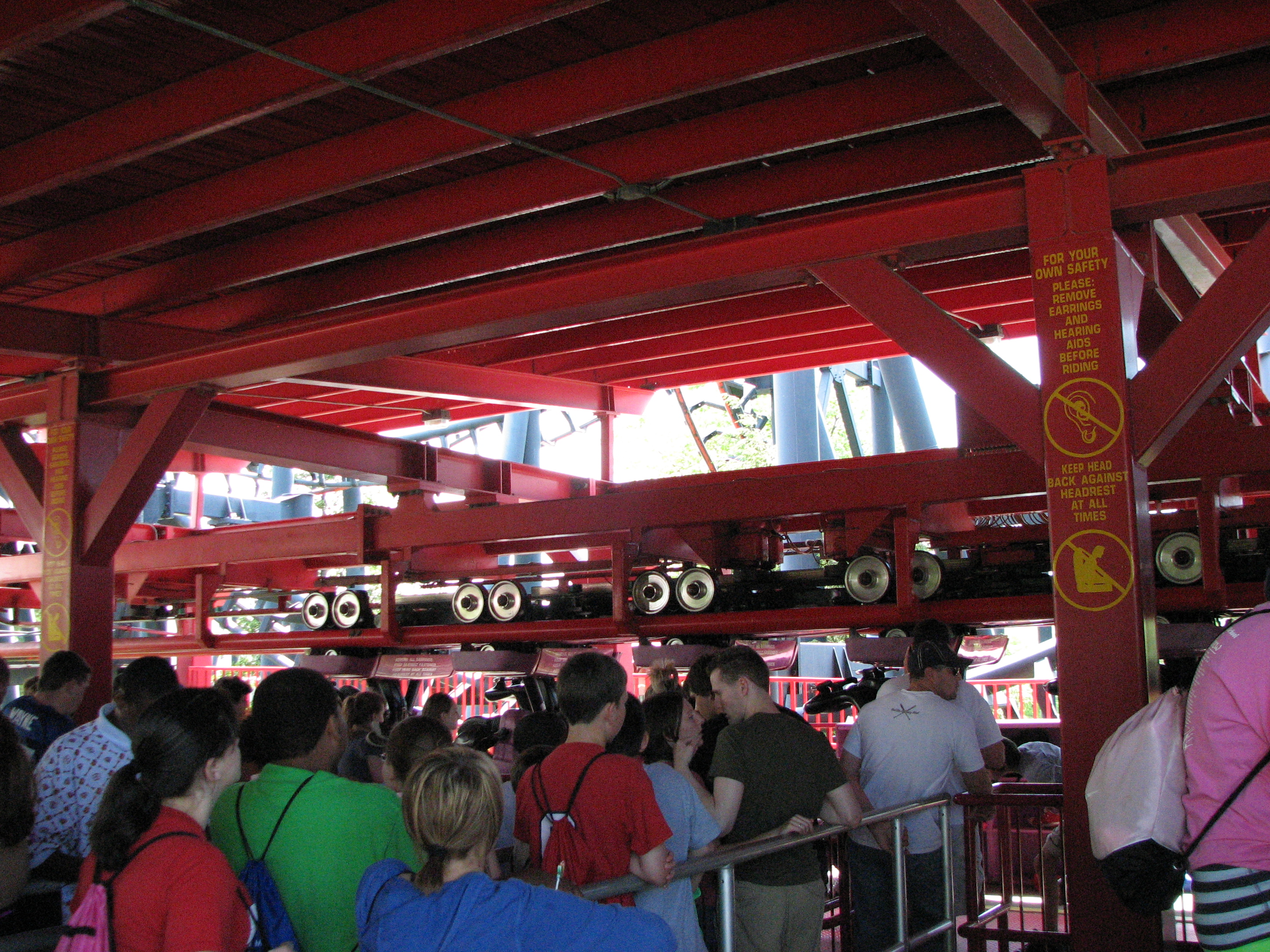 In the red T² station